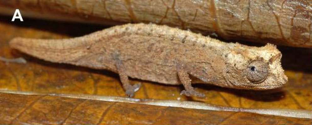 Male Brookesia tristis from Montagne des Français, Madagascar.